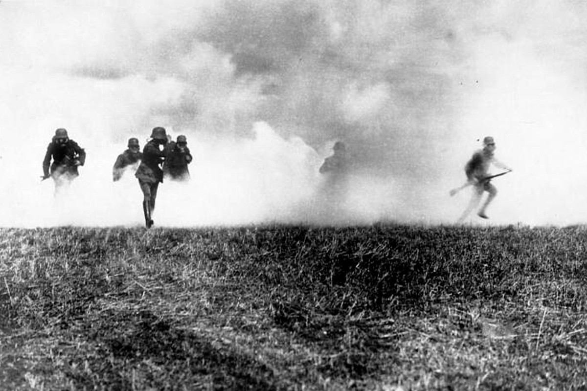 German infantry soldiers (equipped with gas masks) in a cloud of poison gas, 1916, on the Western front in Flanders (either Belgian or French), according to the original caption.